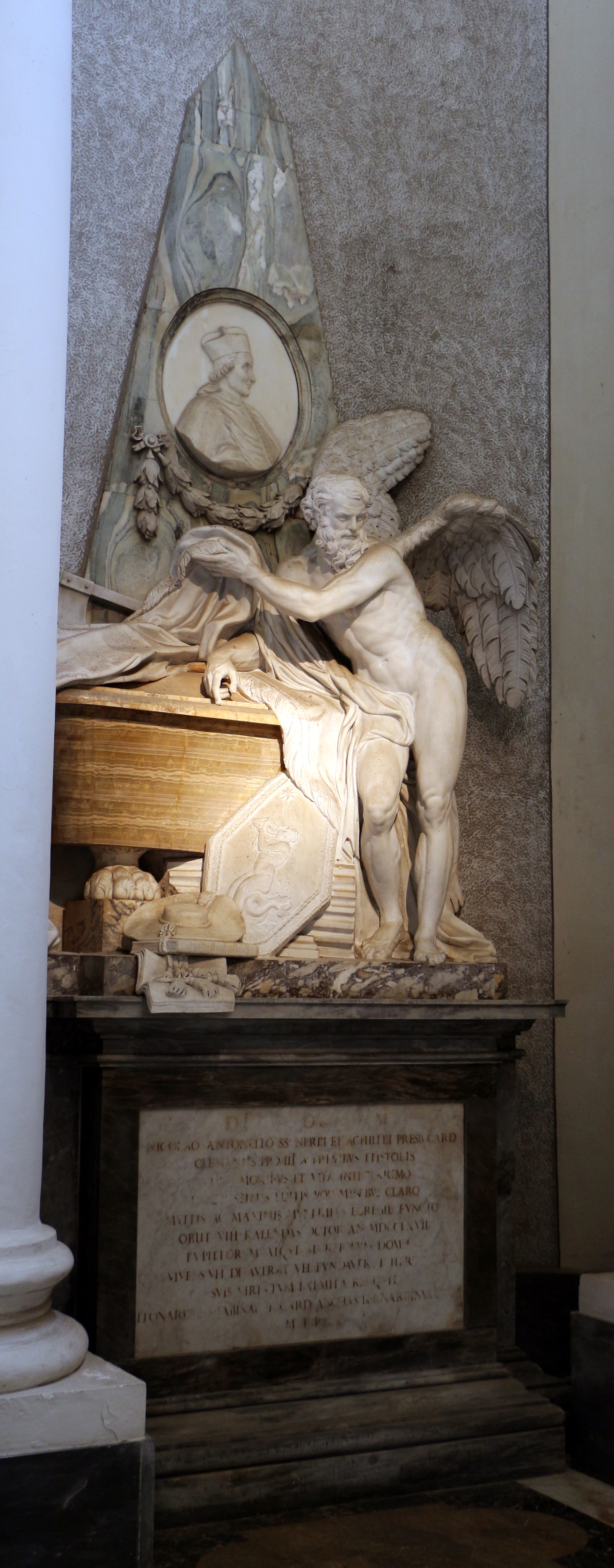 San Giovanni in Laterano (Rome) - Interior